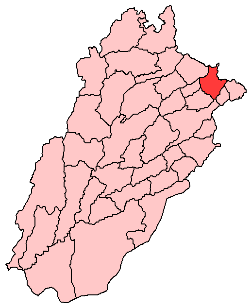 Map of Punjab with Sialkot District highlighted